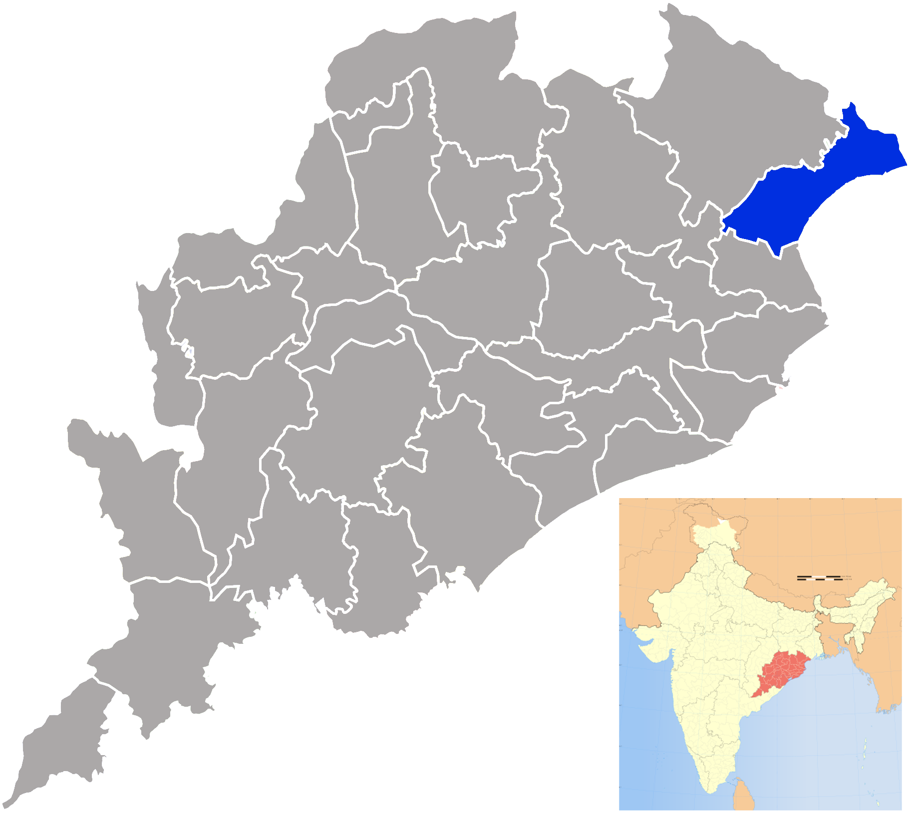 Baleshwar district in Orissa